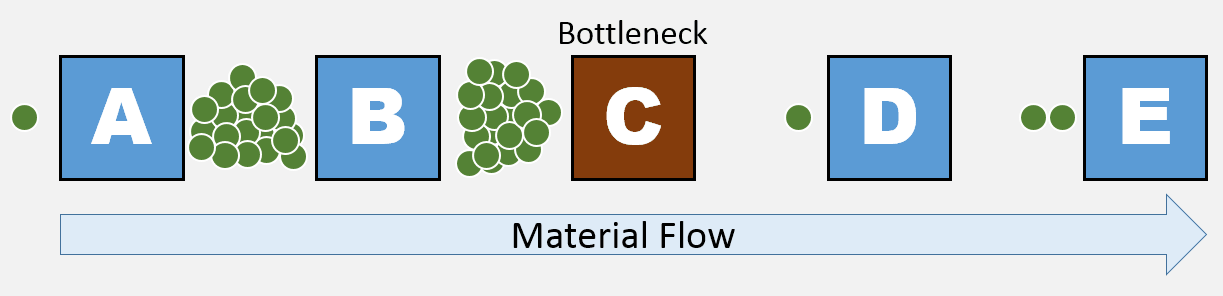 Illustration of a bottleneck in manufacturing, where the material is jammed upstream of the bottleneck and is missing afterwards. A bottleneck in process C leads to blocking of products and processes before the bottleneck and starving of products and processes after the bottleneck. The products (green balls) are piling up before the bottleneck process C, and are missing afterwards.